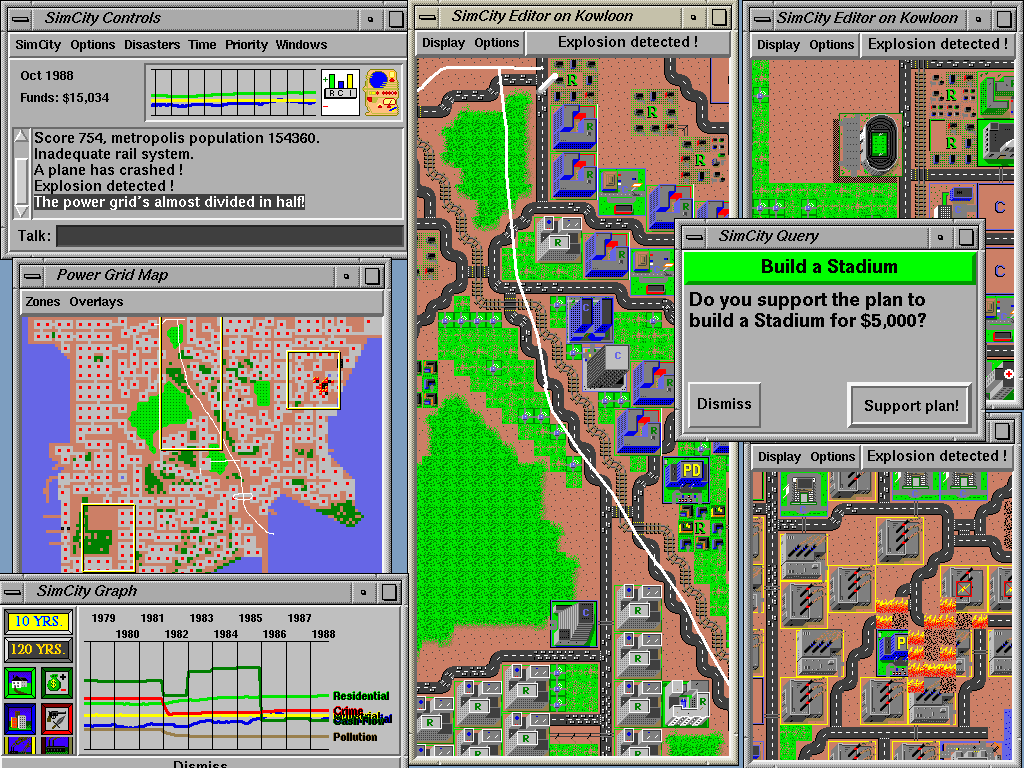 Multi Player SimCity for X11 TCL/Tk running on SGI Indigo workstation, by Don Hopkins.